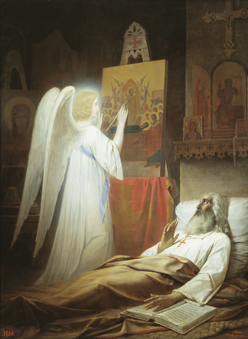 Alipy of the Caves